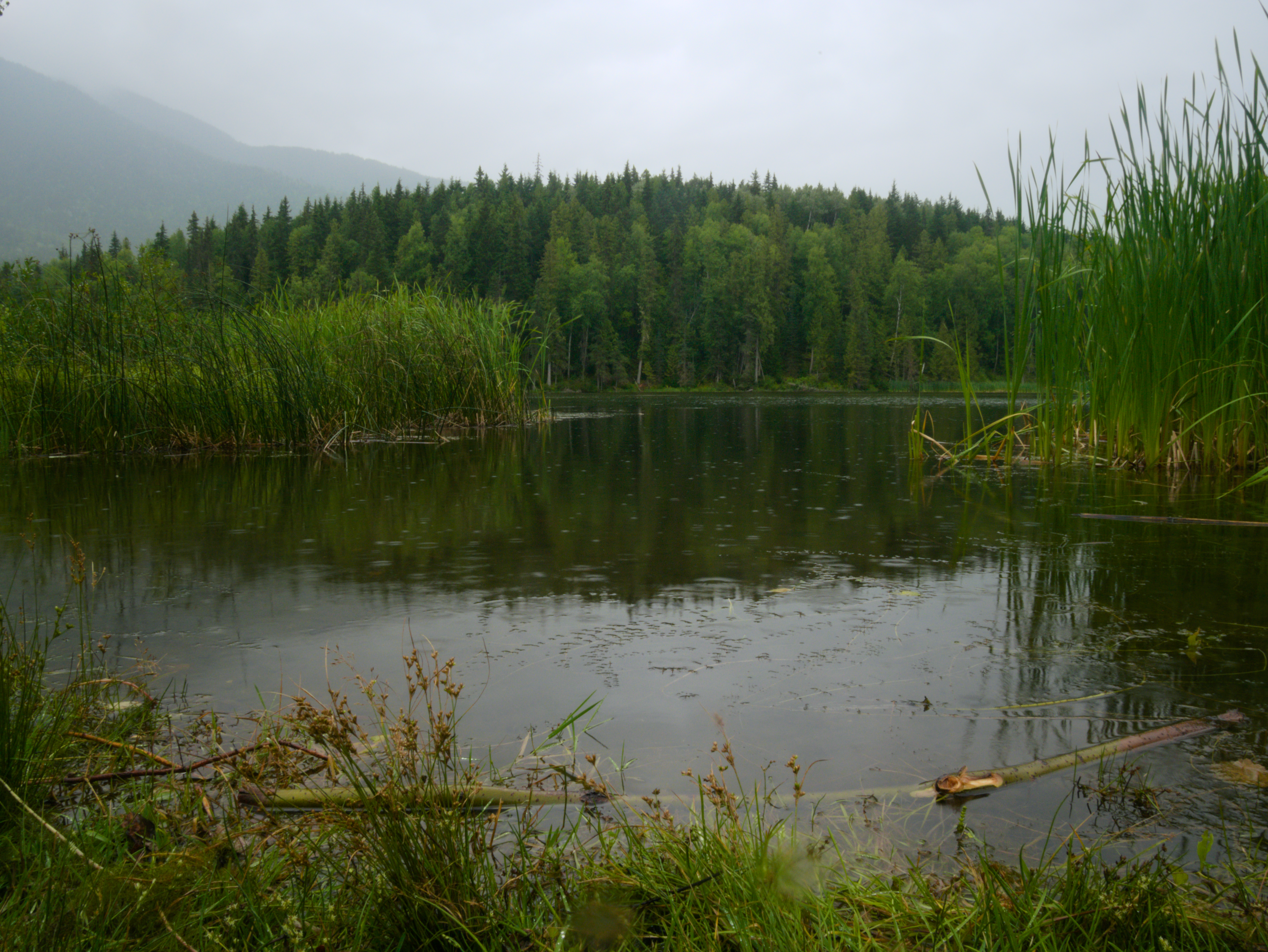 Rain falls amongst the wetlands on the shores of Lake Seeley, British Columbia, Canada, with the Hazelton Mountains shrouded in mists in the background